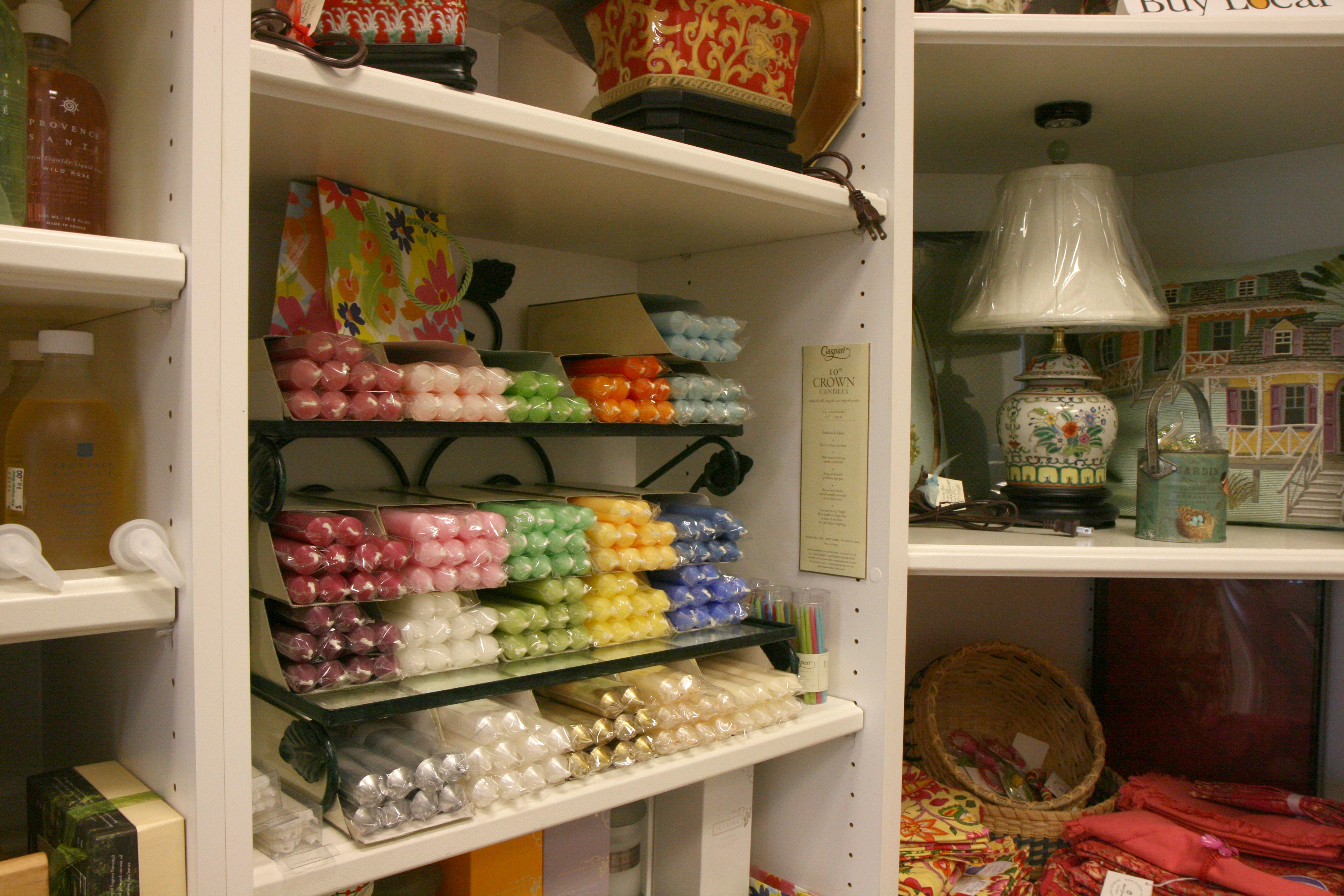 An assortment of 10-inch Crown candles in various colours made by Caspari at The Cottage Shop in Chapel Hill, North Carolina.